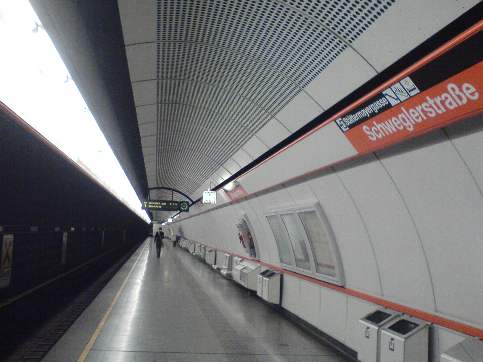 Platforms of the Vienna U3 underground station Schweglerstraße